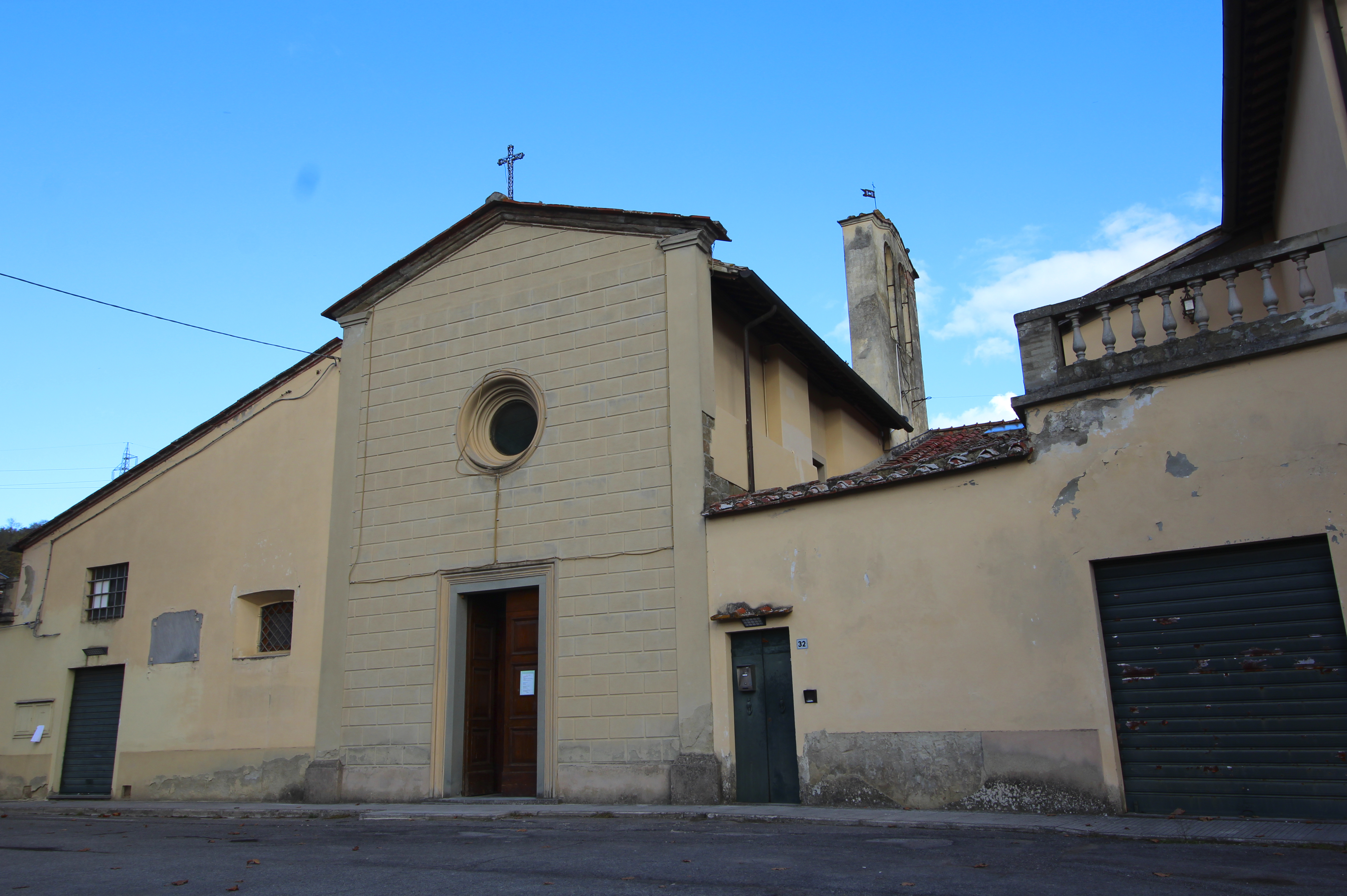 Church San Cipriano in Avane, San Cipriano Valdarno, hamlet of Cavriglia, Province of Arezzo, Tuscany, Italy